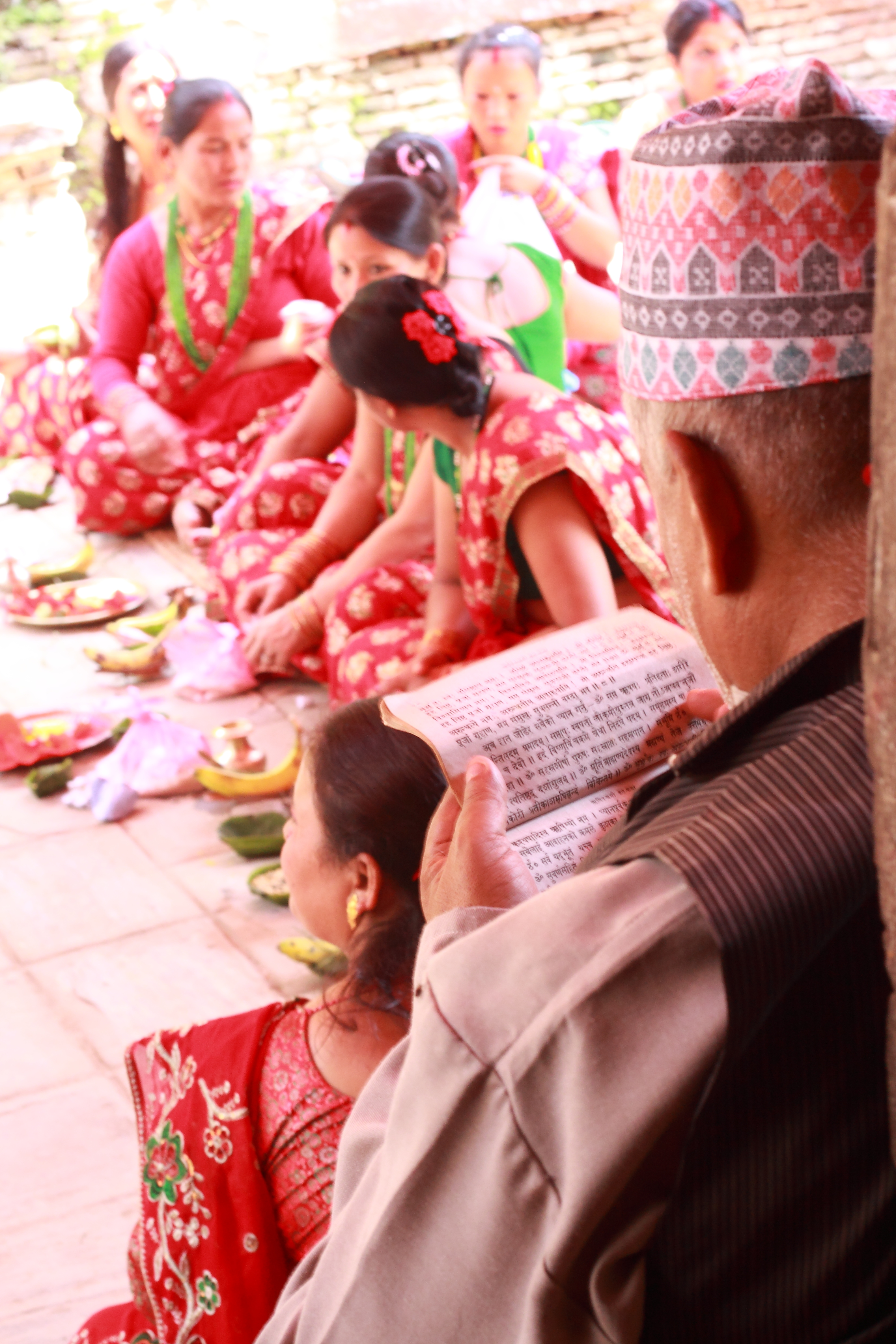 Homage to the Sapta Rishis on the day of Rishi Panchami